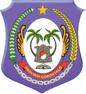 Coat of Arms of Indonesian province Gorontalo